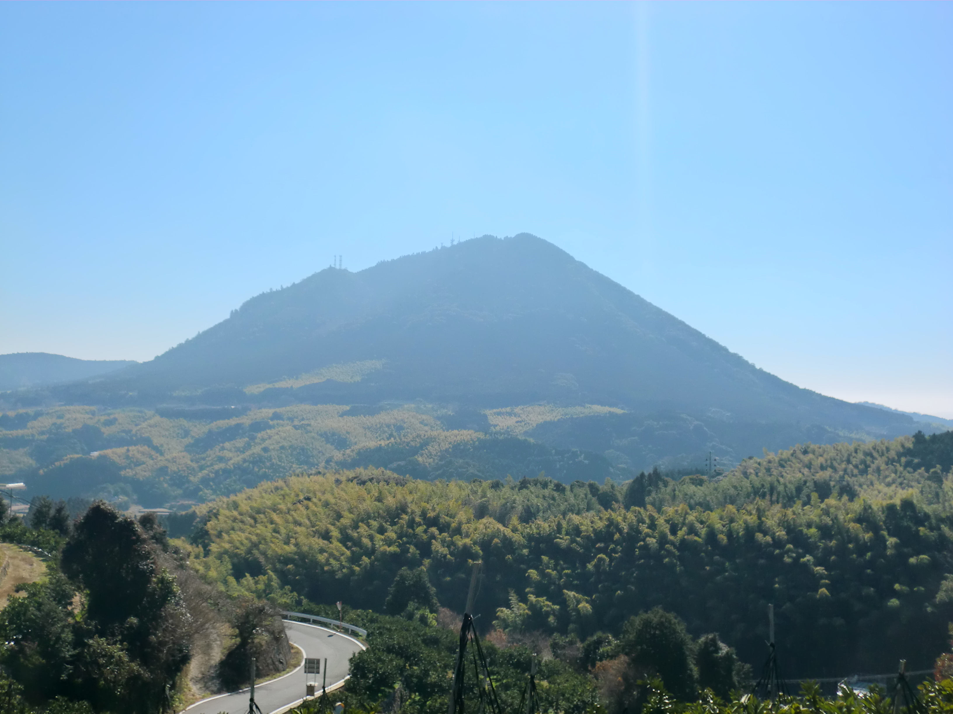 Mount Kinpo (Kinpo-zan) as seen from Kawachimachi, Nishi-ku, Kumamoto City